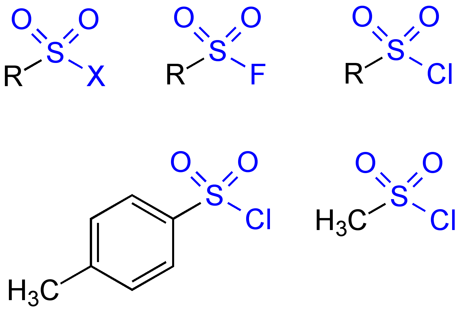 Sulfonyl_Halogenides_General_Formulae